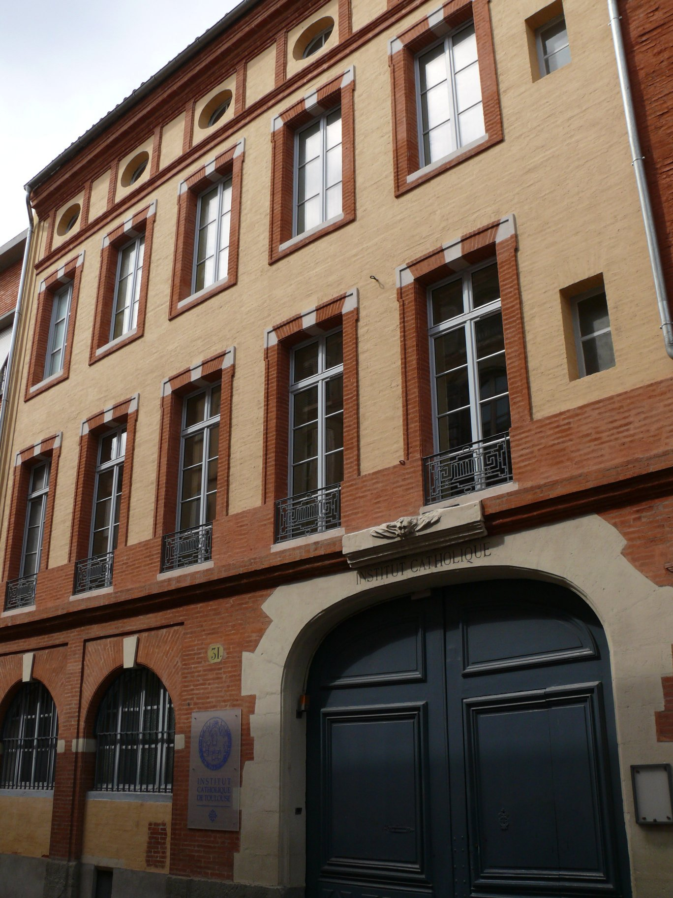 The former cannon foundry, currently the Catholic Institute, in Toulouse (Haute-Garonne, Midi-Pyrénées, France).